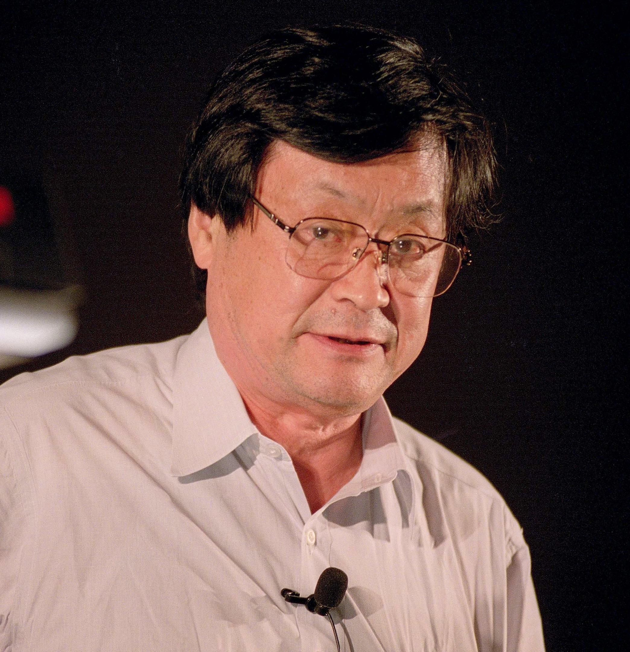 Hirotaka Sugawara, Director General of the High Energy Accelerator Research Organization, attended the "Snowmass 2001 Conference" on July 2, 2001.